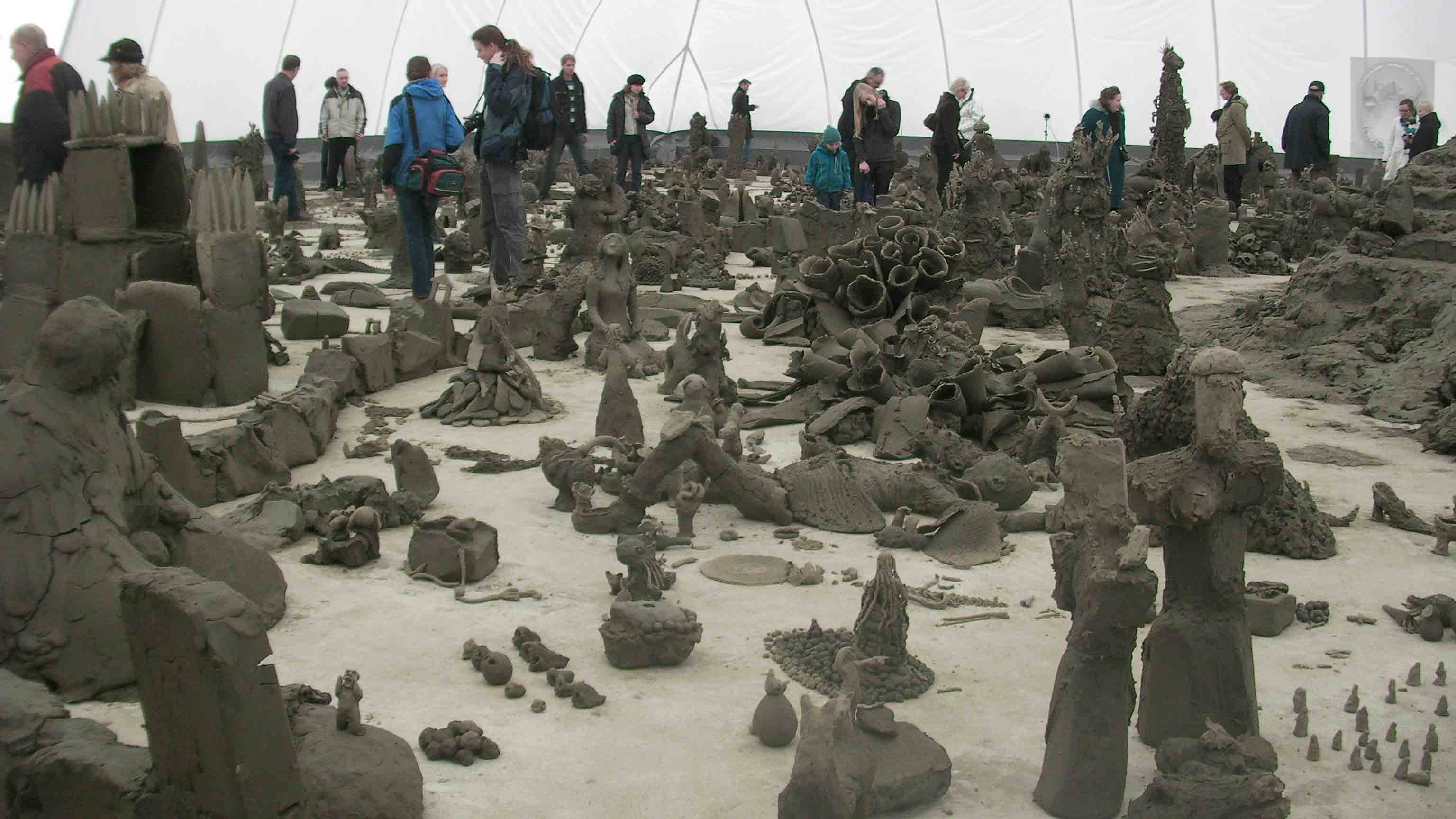 Antony Gormley: Clay and the Collective Body in Kaisaniemi, Helsinki. Ihme Project in 2009. Community art.